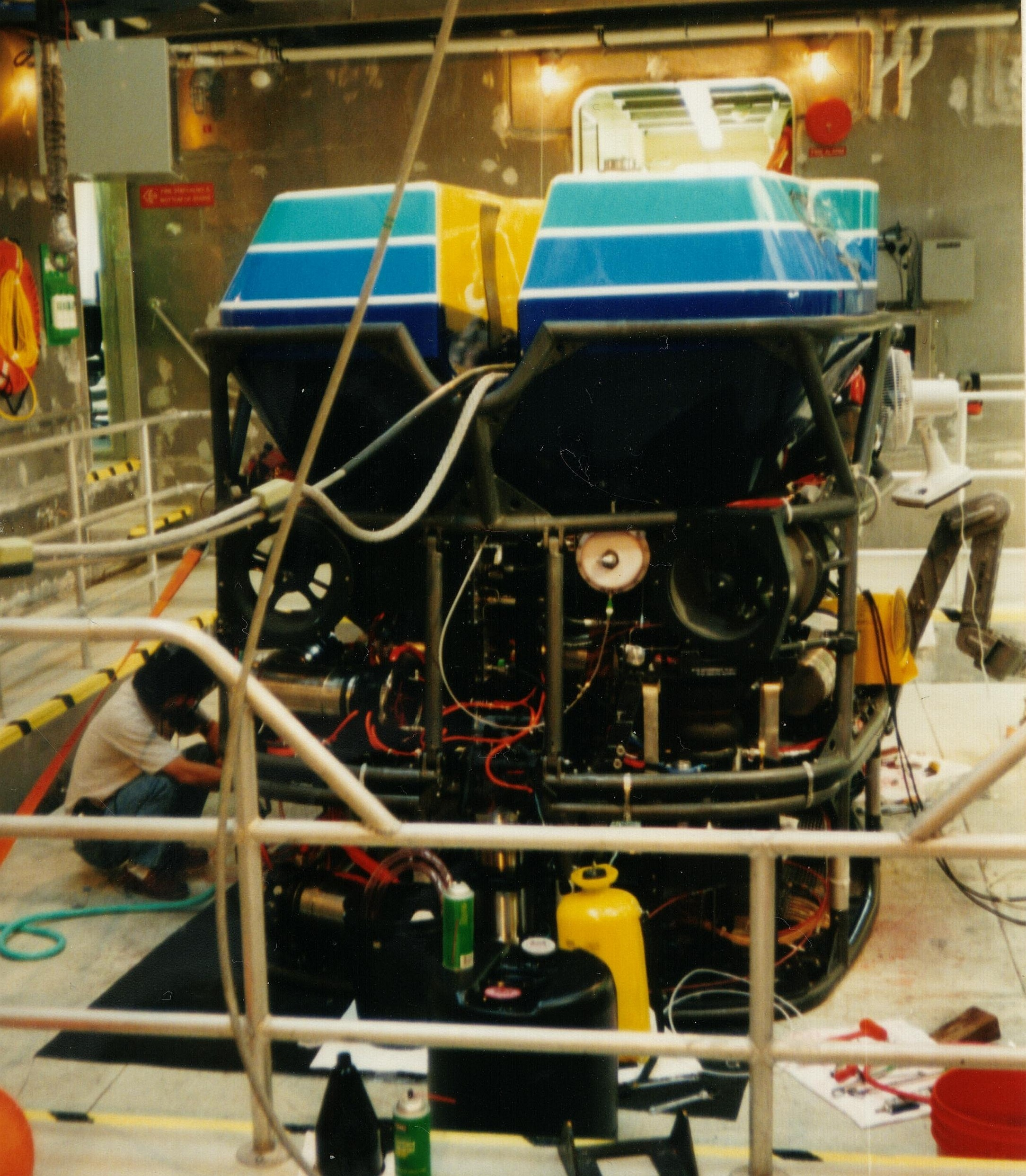 ROV Tiburon in the MBARI research vessel Western Flyer